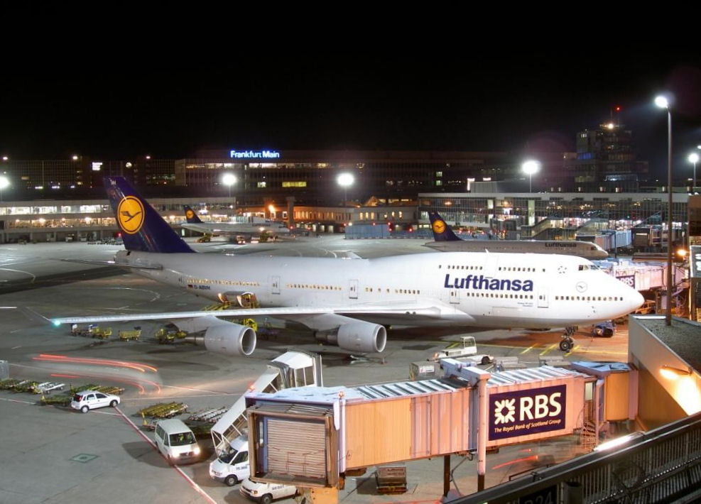 Lufthansa Boeing 747-400 (D-ABVH; "Düsseldorf") at Terminal 1, Airport Frankfurt.